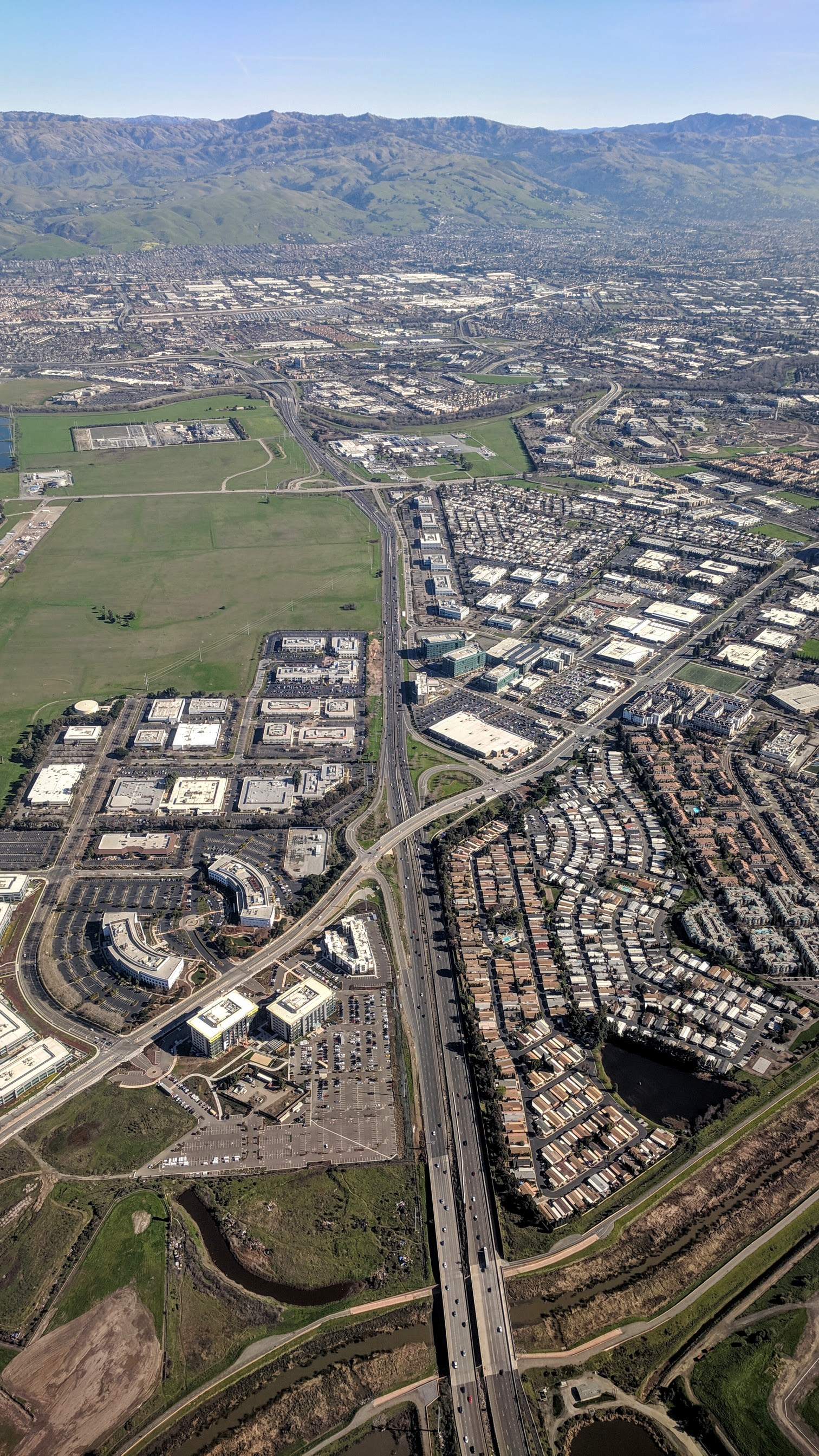 Aerial view, on takeoff from SJC, of California State Route 237, San Jose, looking east from above Santa Clara. The Guadalupe River crosses in the foreground, followed by N. 1st St.